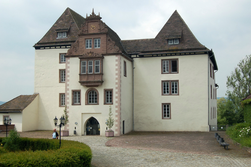 Germany / Town of Fürstenberg, castle of Fürstenfeld